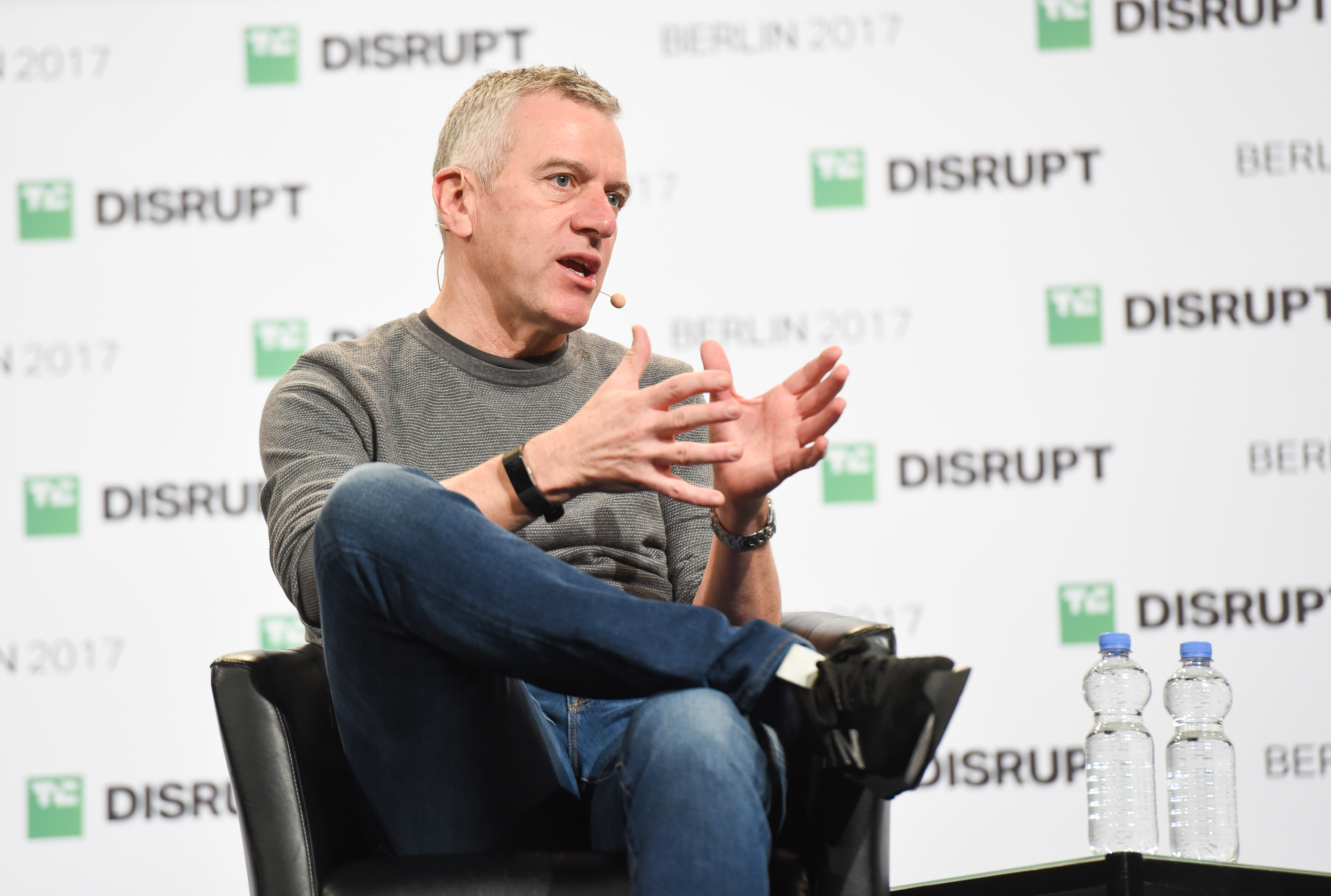 BERLIN, GERMANY - DECEMBER 05: FiveAI Co-Founder & CEO Stan Boland talks at TechCrunch Disrupt Berlin 2017 at Arena Berlin on December 4, 2017 in (Photo by Noam Galai/Getty Images for TechCrunch,)